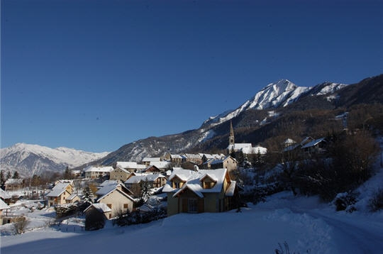 st léger en hiver.